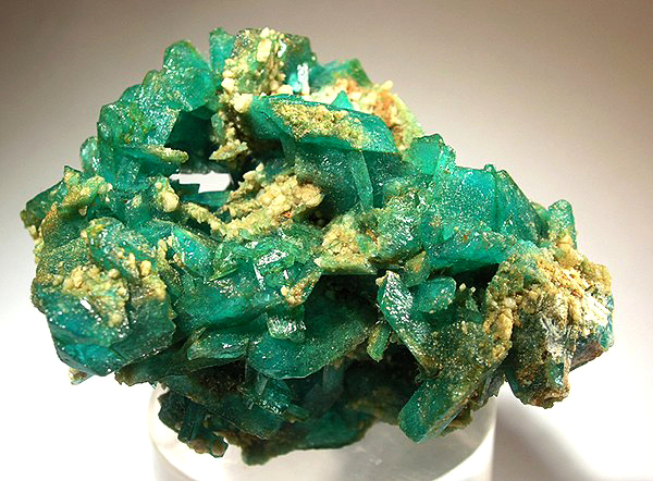 Kröhnkite Locality: Chuquicamata Mine, Chuquicamata District, Calama, El Loa Province, Antofagasta Region, Chile (Locality at ) An EXCEPTIONALLY well-crystallized example of this rare copper species, with crystals to 1.7 cm though most average about 1 cm . SHARP, ISOLATED crystals of this species are rare for several reasons: firstly, most krohnkite from this locality formed as thick massive vein filling and thus lacks individual crystal form; and secondly the locality has been closed and defunct for decades. It remains one of the most important rarities locales in the world, but specimens are getting harder and harder to obtain out of old collections. 6 x 4.3 x 3 cm